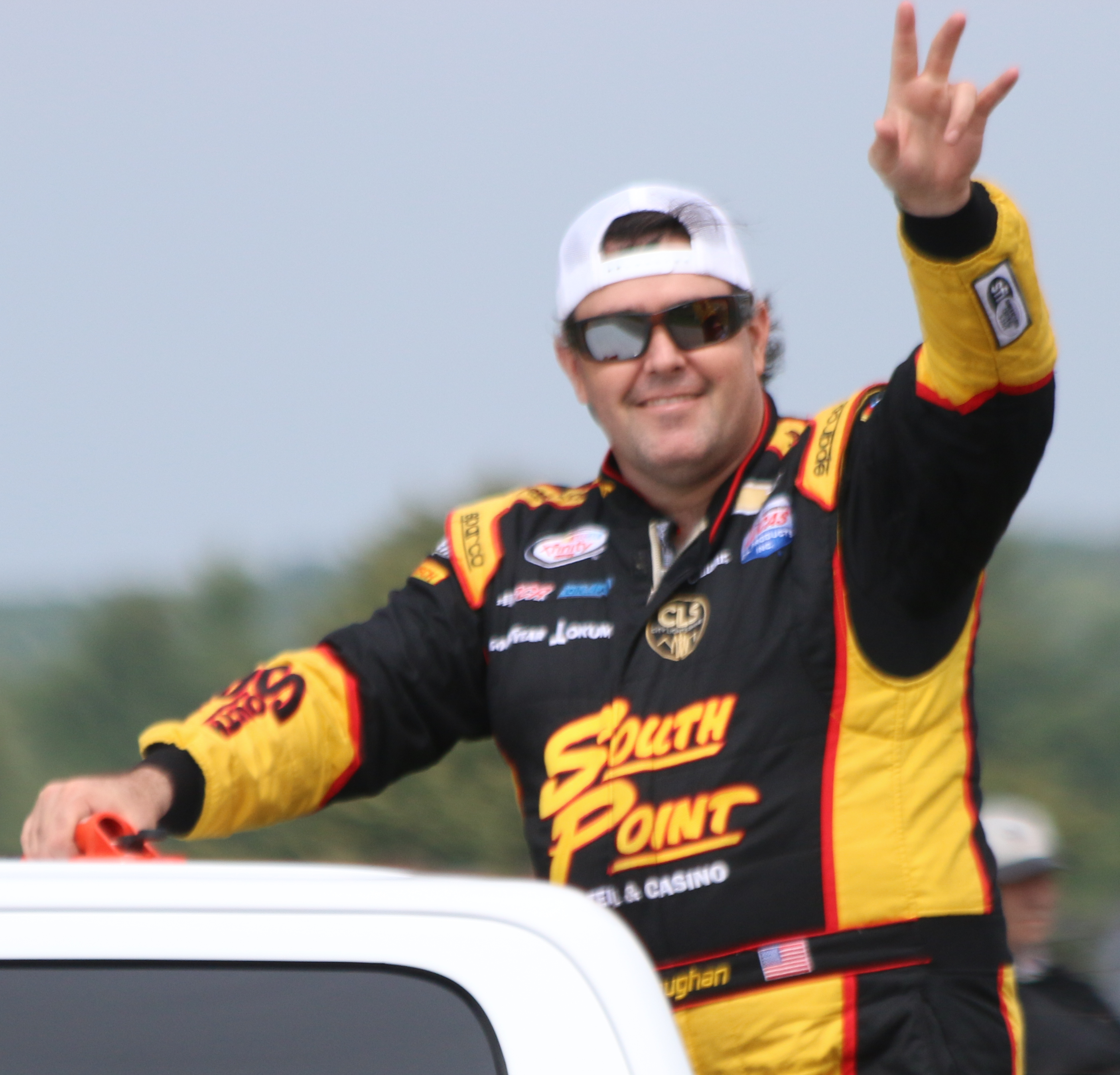 NASCAR driver Brendan Gaughan during the driver's introductions lap at the 2017 Johnsonville 180 race in the Xfinity Series race at Road America.